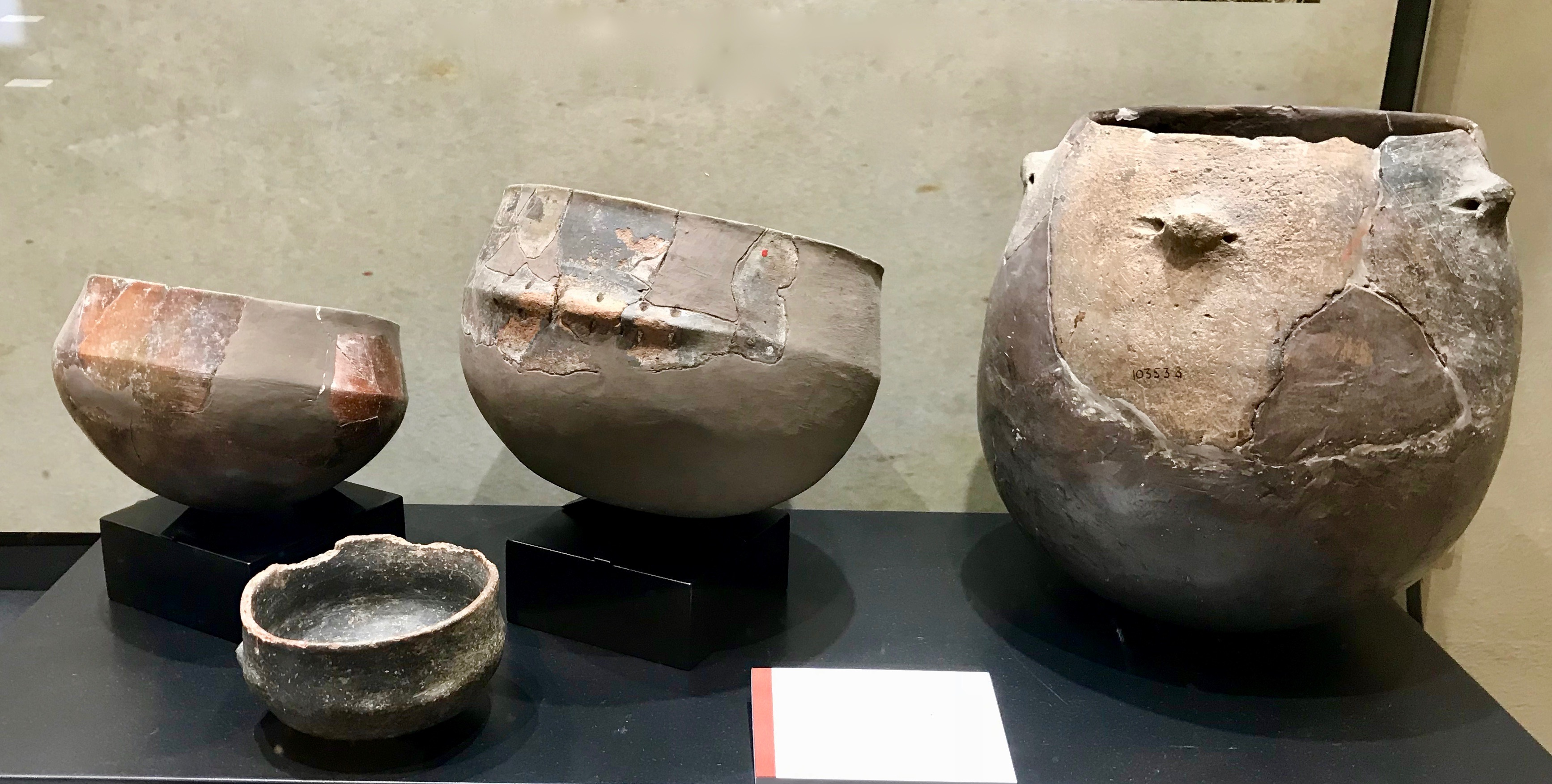 Neolithic pottery vessels (Chasséen Culture) aged between 5500 and 5000 years ago, found in Grotta del Leone, a cave in Agnano (Pisa). On display at the Natural History Museum of Pisa Universit